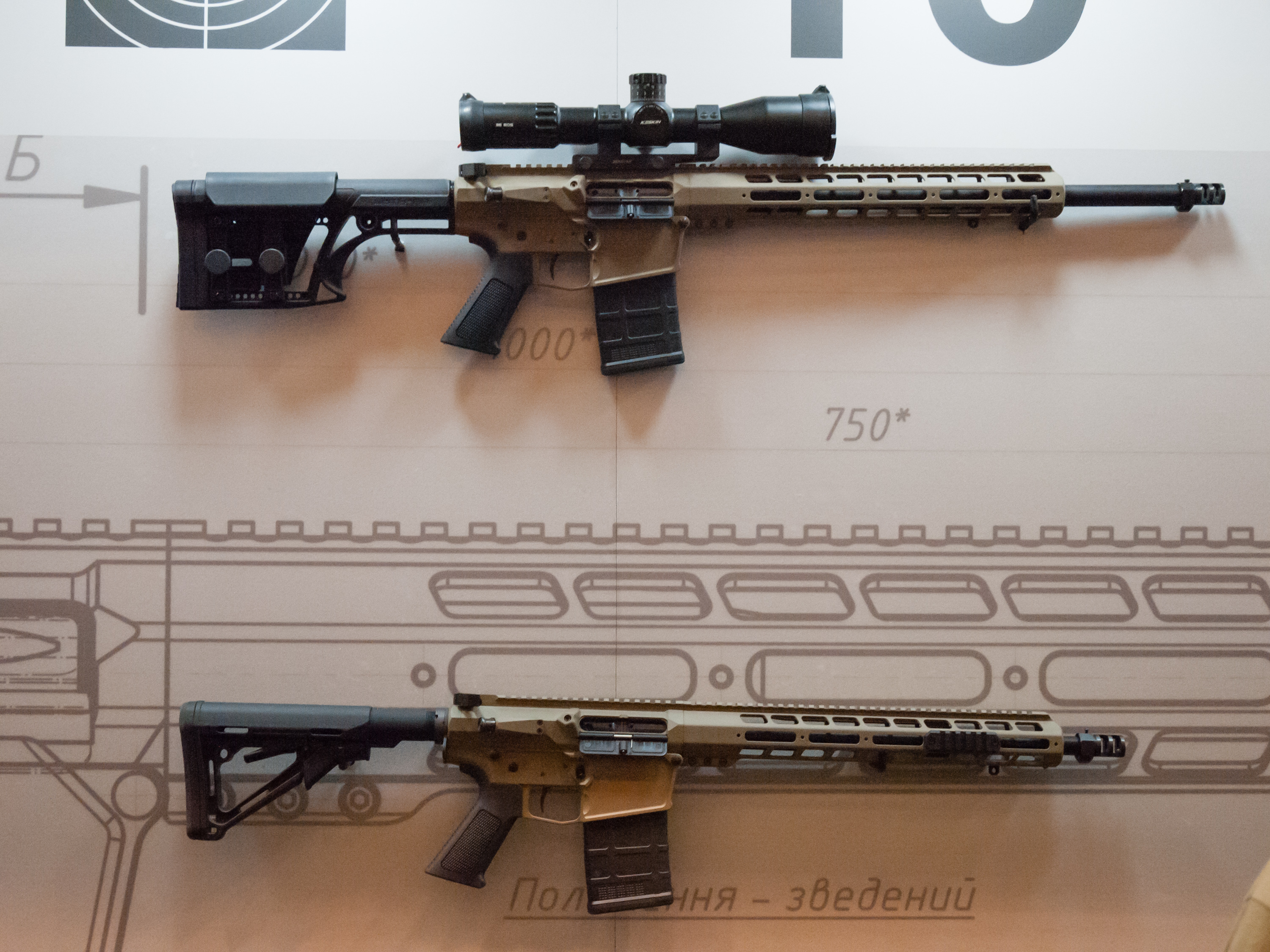 Zbroyar Z-10 rifles (Ukraine)